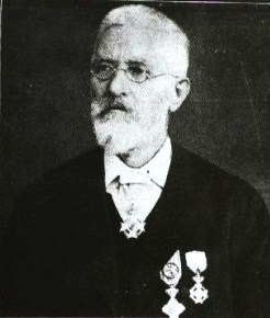 Anastas Avramidhi-Lakçe, president of the organization Drita or Dituria